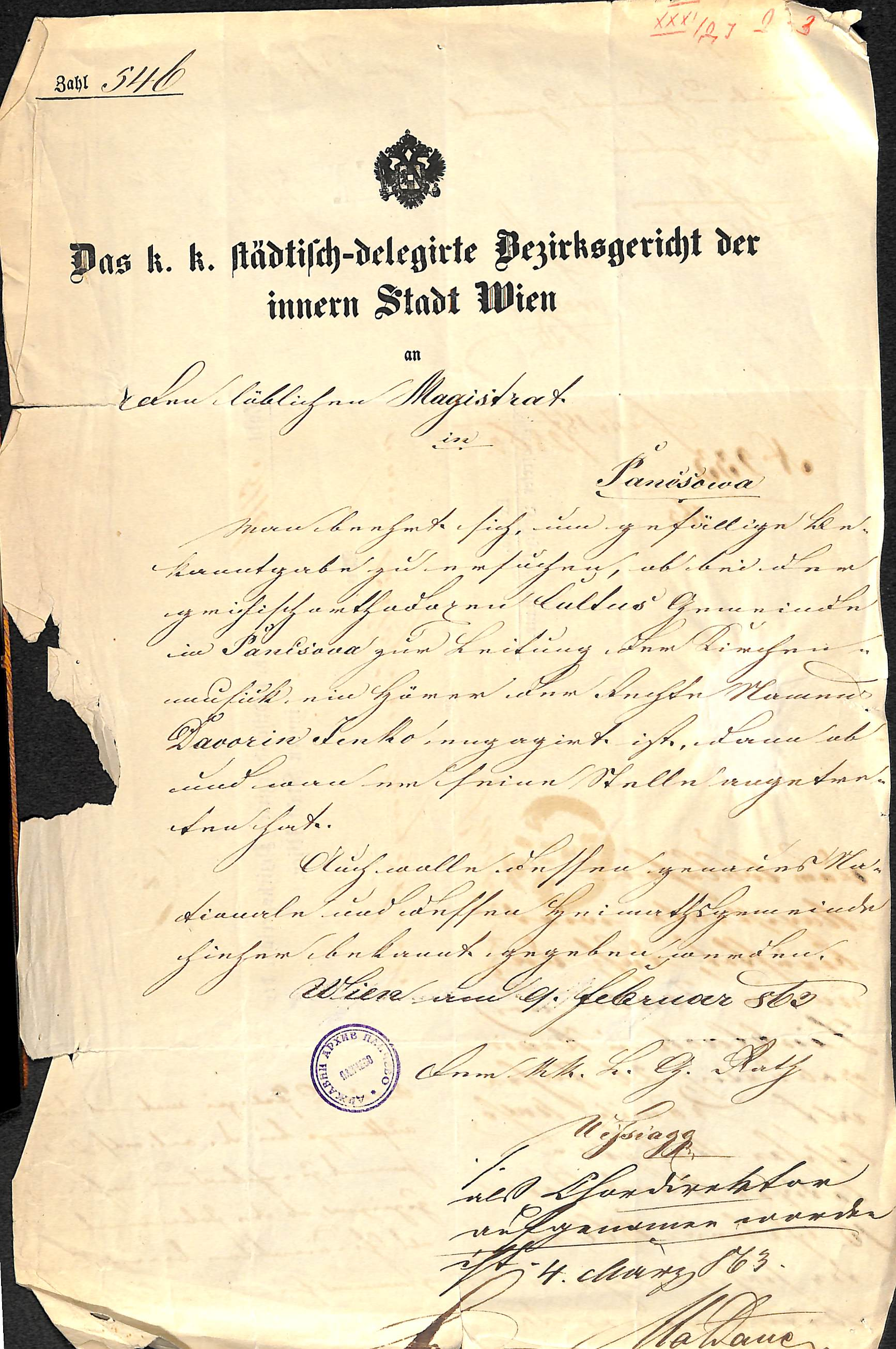 The Vienna City Court is seeking information from the Pančevo Magistrate's Court on the nationality of Davorin Jenko and a confirmation of his involvement in the choir of the Greek-Ottoxic Church Church in Pančevo.